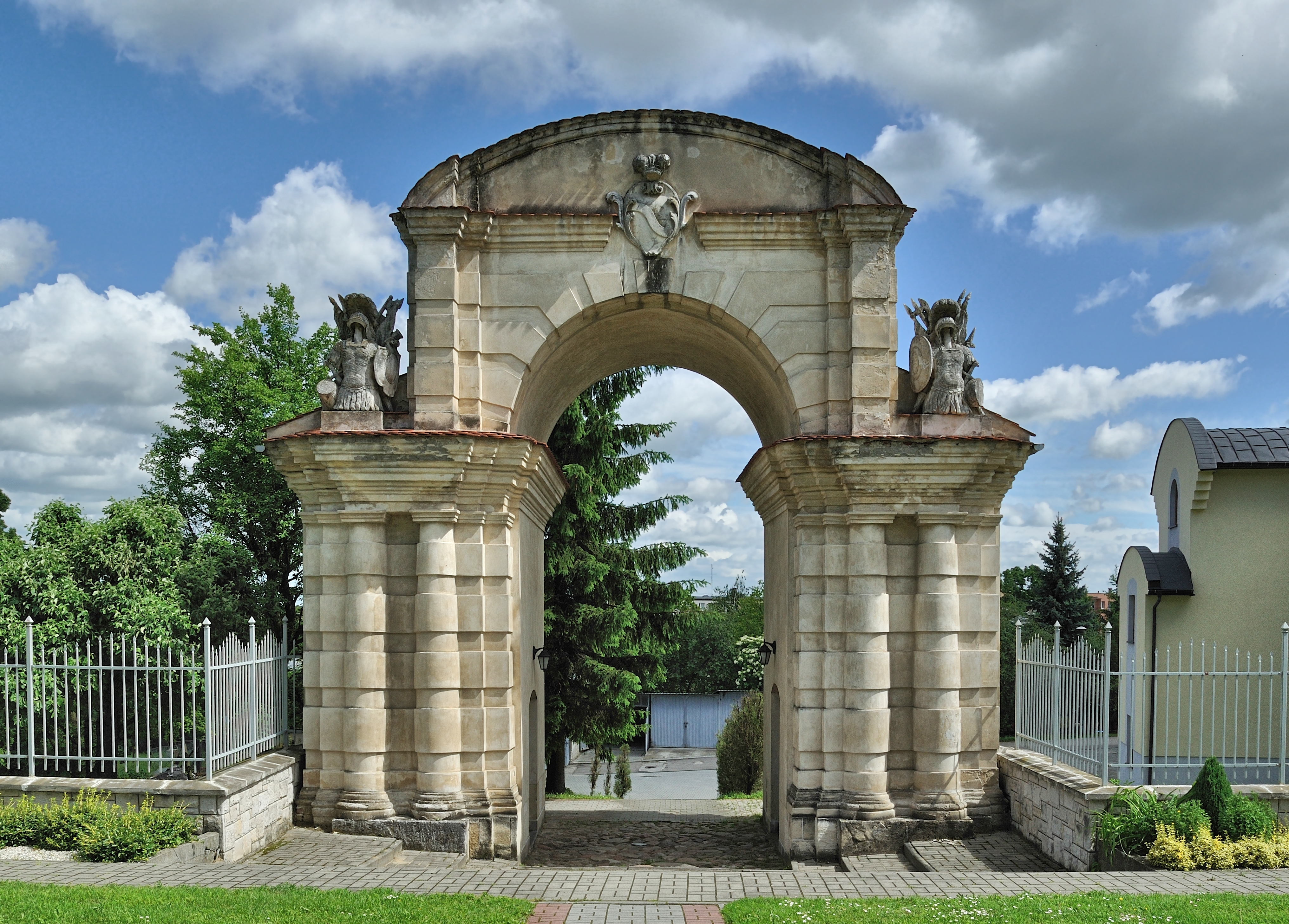 The castle gate in Dąbrowa Tarnowska, Poland.